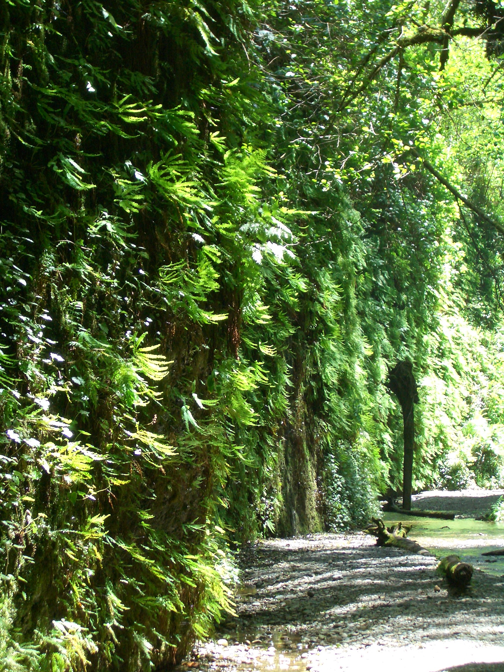 Fern Canyon in Redwood National Park, California with tree upside down.